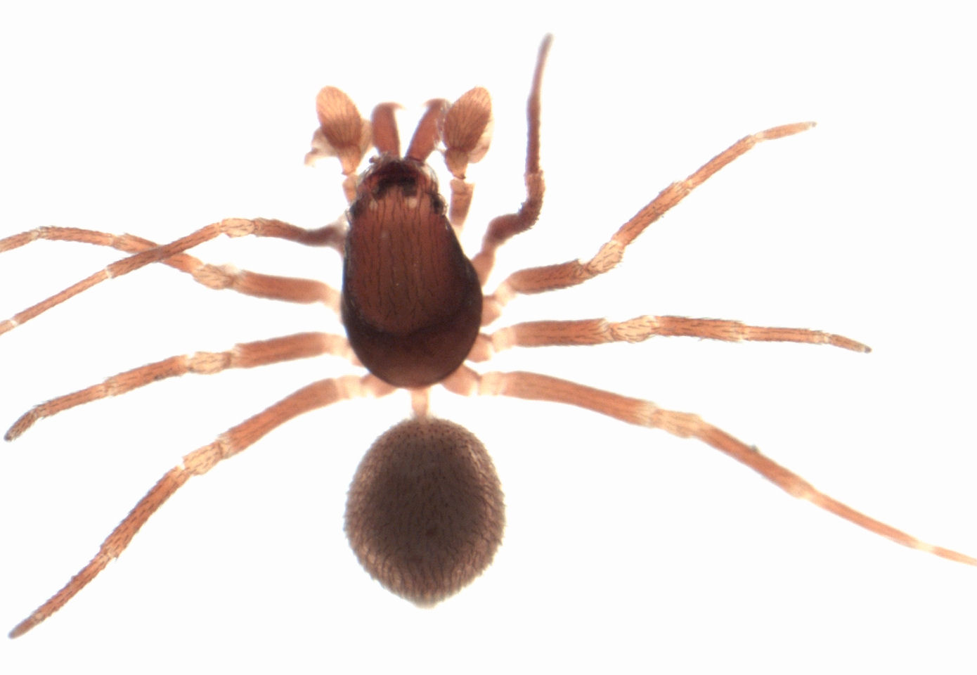 adult male Zearchaea clypeata